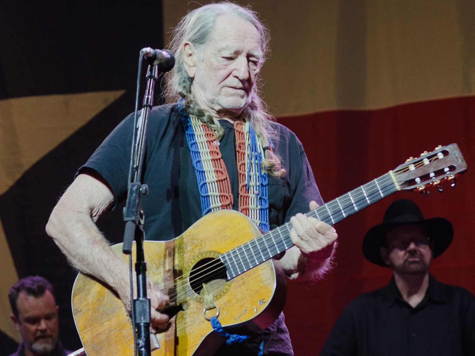 Singer-songwriter Willie Nelson, performing at the Wellmont Theatre in Montclair, New Jersey.